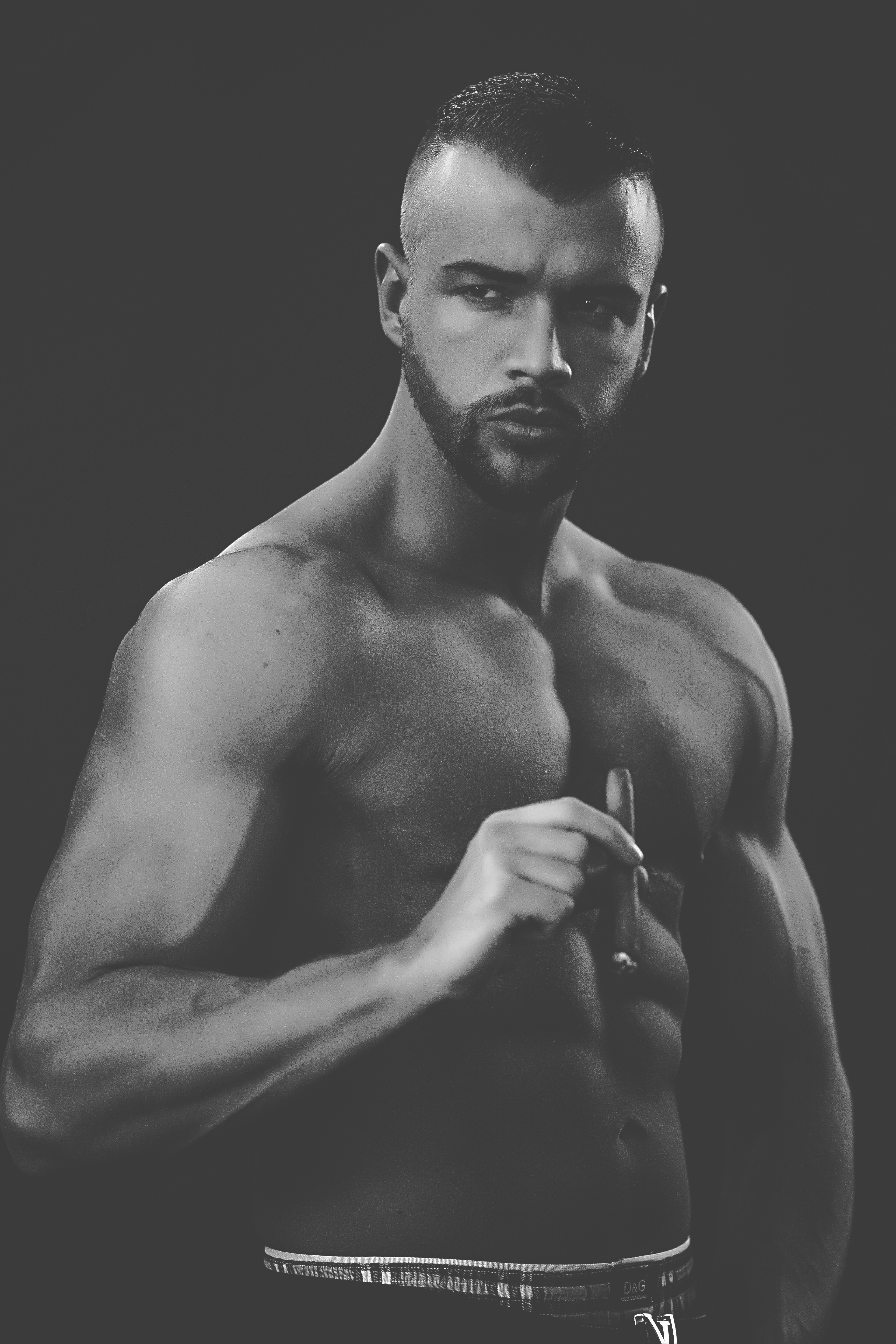 Pressefoto Kollegah (2014)